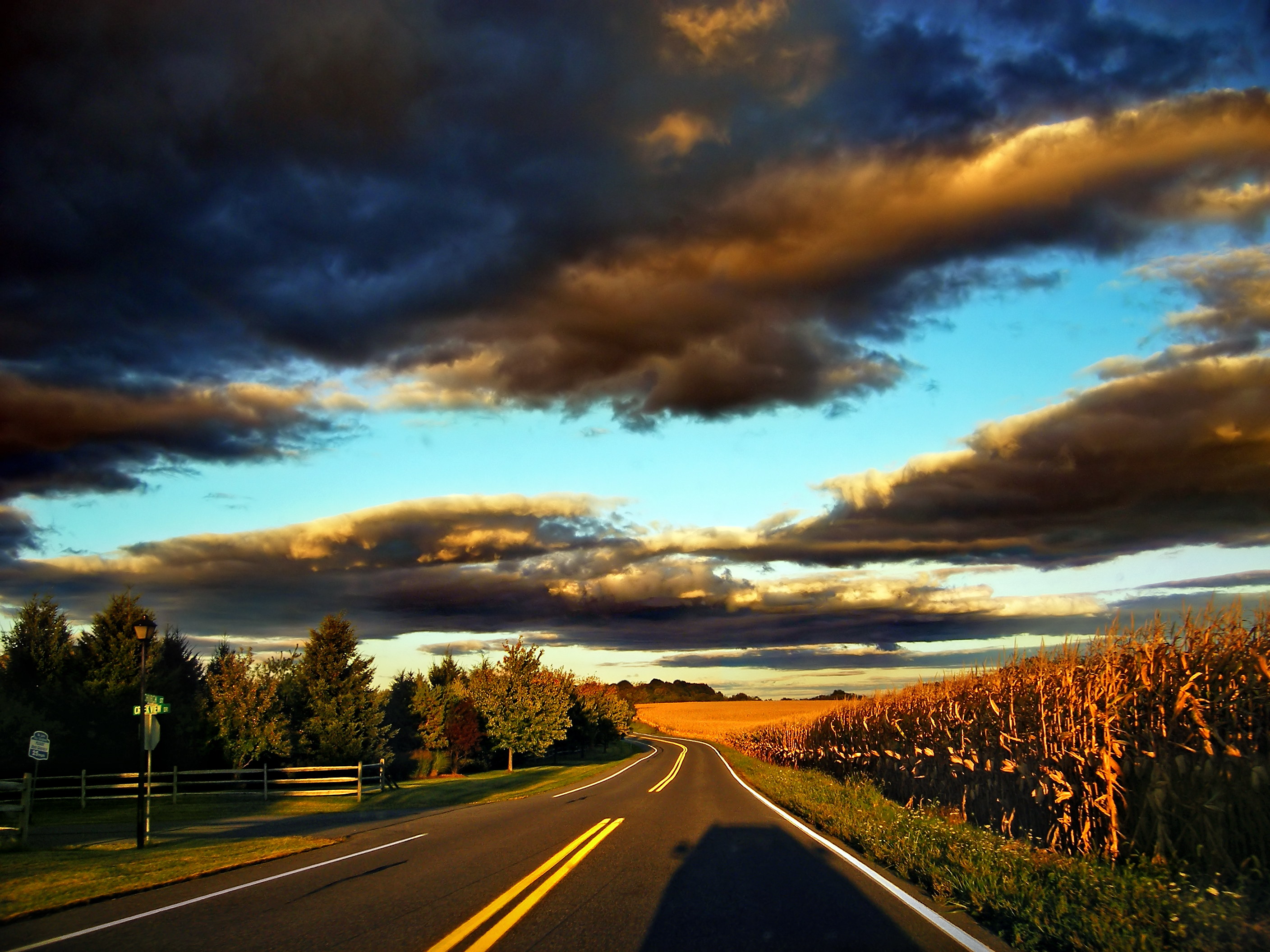 Late-day light, New Smithville, Lehigh County.